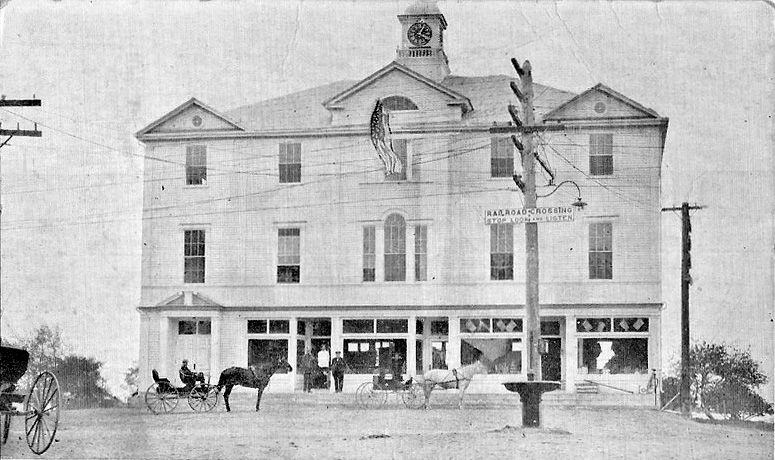 The town hall in Wells, Maine, as it appeared in a 1922 postcard.